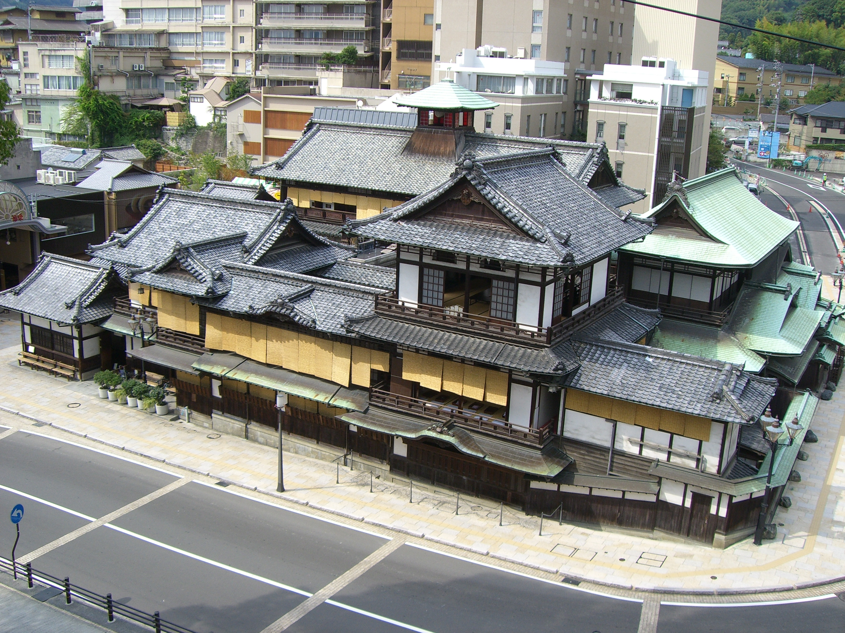 Dogo Hot Spring main buildings seen from the mountain(KANMURI-YAMA)：This place was often described in Japanese literature, and it is said to be the oldest hot spring in Japan. Soseki Natsume, Shiki Masaoka and many other writers loved this place. The main wooden building built in 1894 was designated as the first national important cultural property as a public bath in 1994. (Ehime JAPAN)